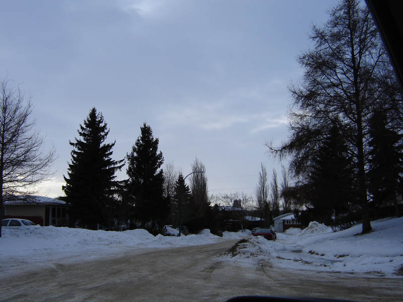 Appleby Place, a court of homes in Meadow Green, Meadow Green, Confederation SDA, Saskatoon, Saskatchewan, Canada